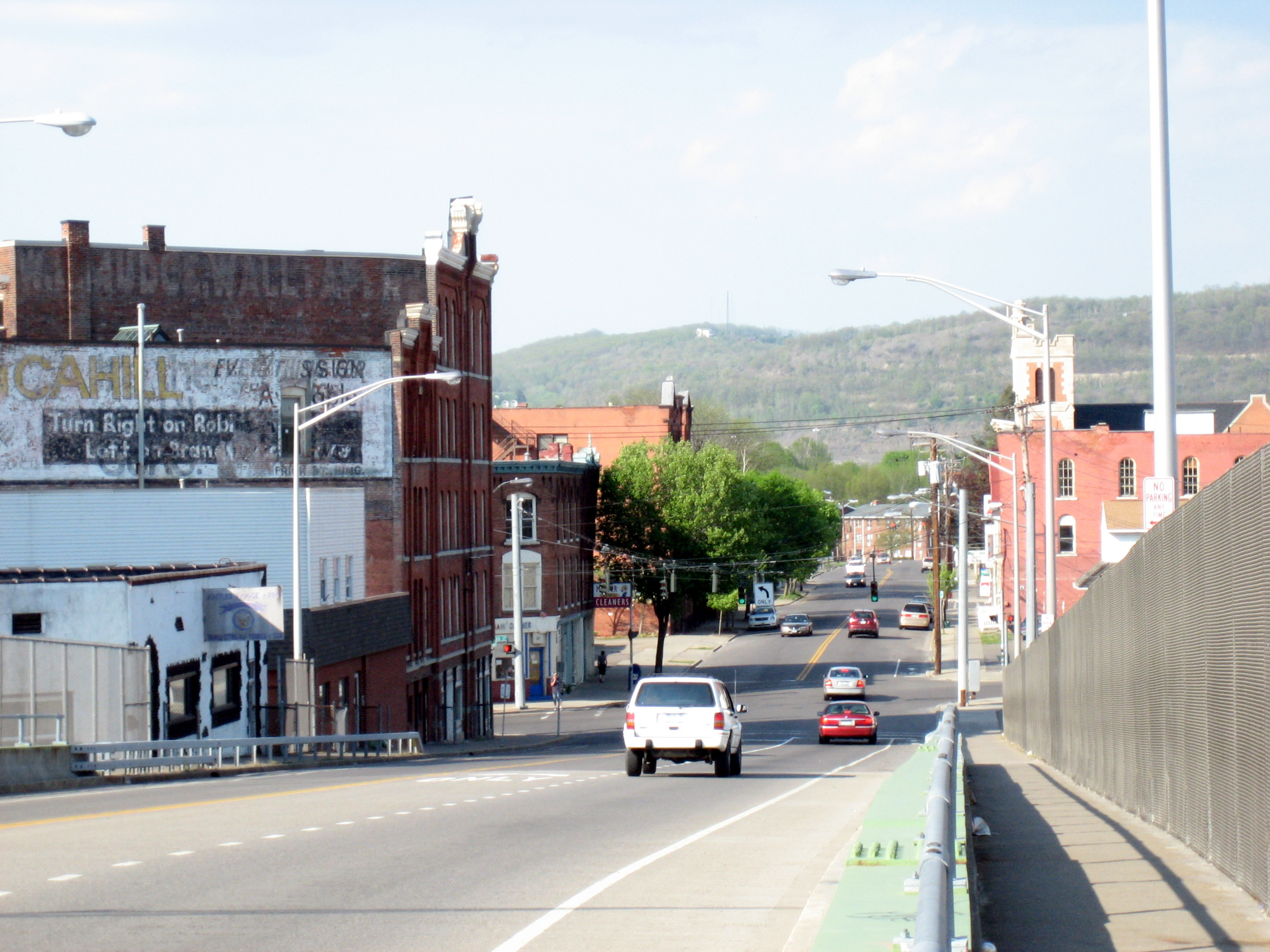 Looking north along Chenango Street towards the Northside of Binghamton.